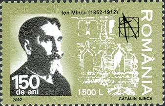 Stamps of Romania, 2002